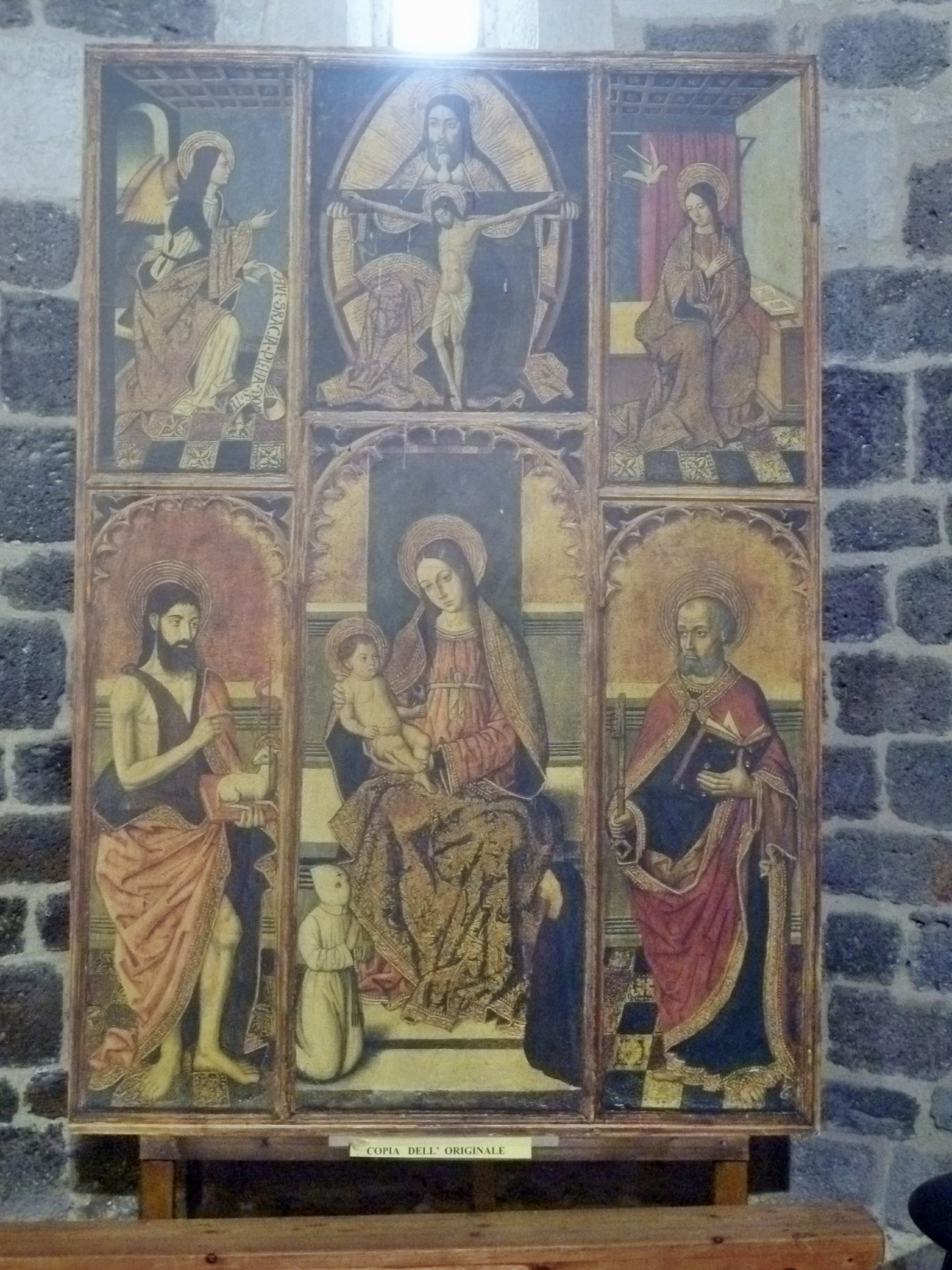 Retable by the Maestro di Castelsardo (1492) in the Basilica di Saccargia; Codrongianos, northern Sardinia, Italy.